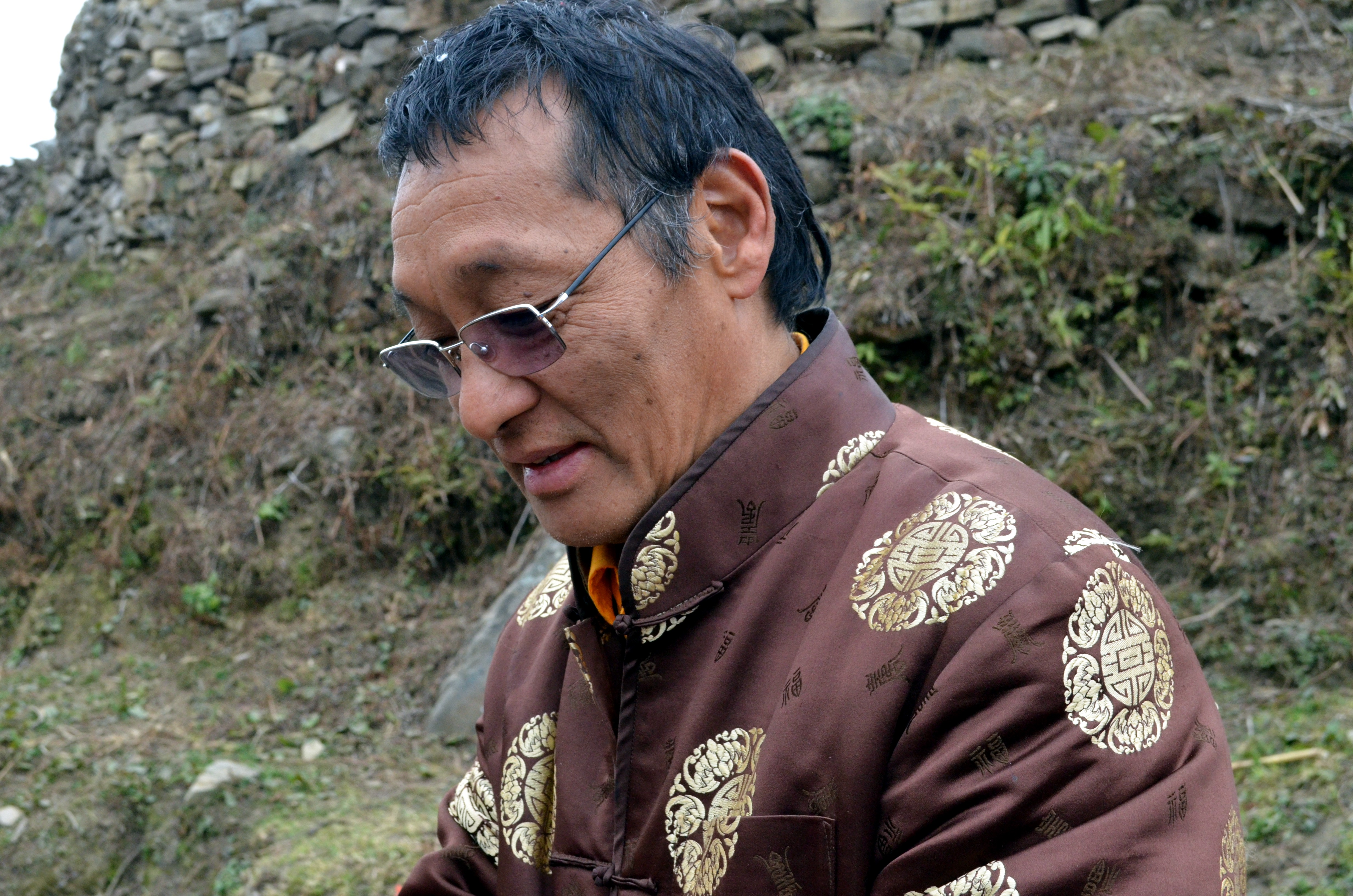 H.E. Gangteng Tulku Rinpoche, Kunzang Rigdzin Pema Namgyal (b.1955).